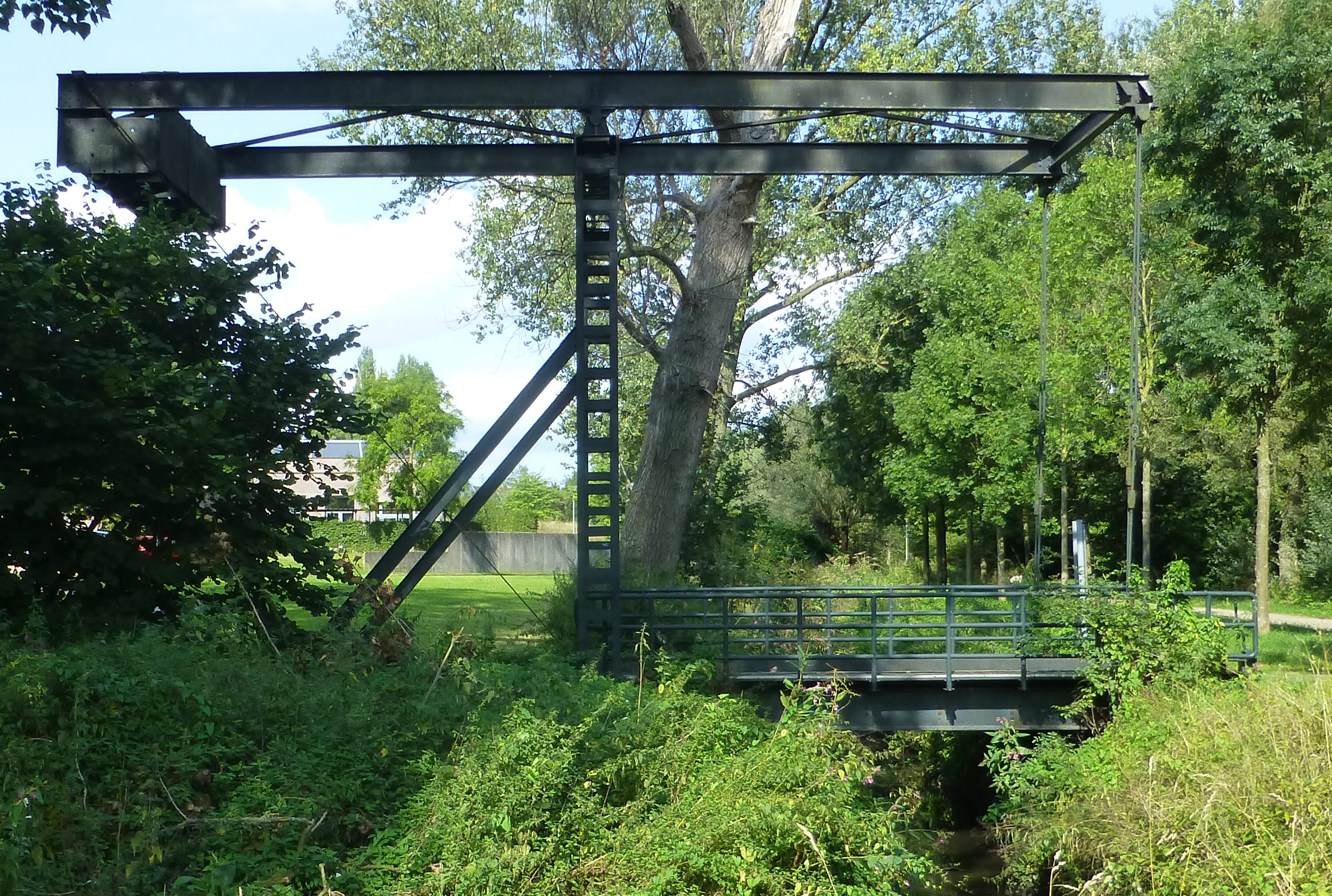 Former Zwarte Hoekbrug (Dark Corner's Bridge) in the Basketballpark in Aalst, Belgium.